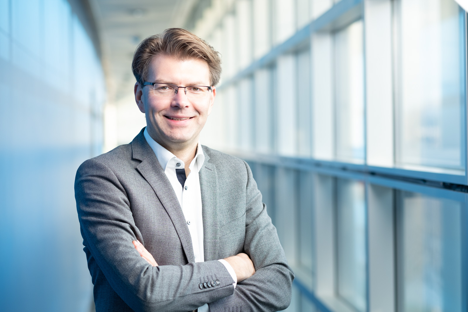 Daniel Caspary MEP standing in the European Parliament